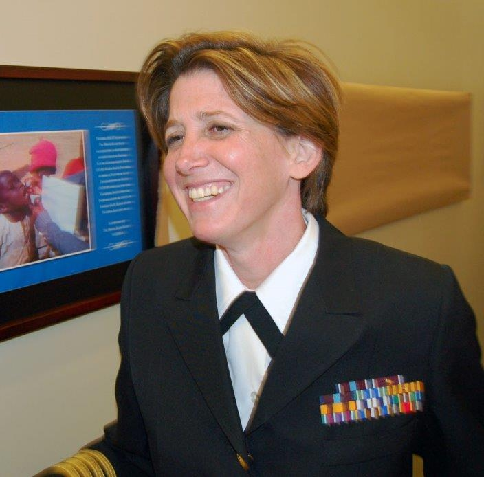 Dr. Nancy Messonnier, DGHP Acting Director unveiling FETP photos from Nigeria